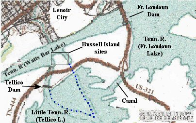 Map showing the original outline of Bussell Island, at the junction of the Tennessee River and Little Tennessee River near Lenoir City, Tennessee, USA. The construction of Tellico Dam in the 1970s flooded the original southern 2/3rds of the island, and a mile-long earthen levee was built along the island's new southwest shore and across its east river channel, connecting the island with the mainland. The construction of the canal between Tellico and Fort Loudoun lakes effectively created a larger island. The Bussell Island sites were excavated in 1887 and 1919.